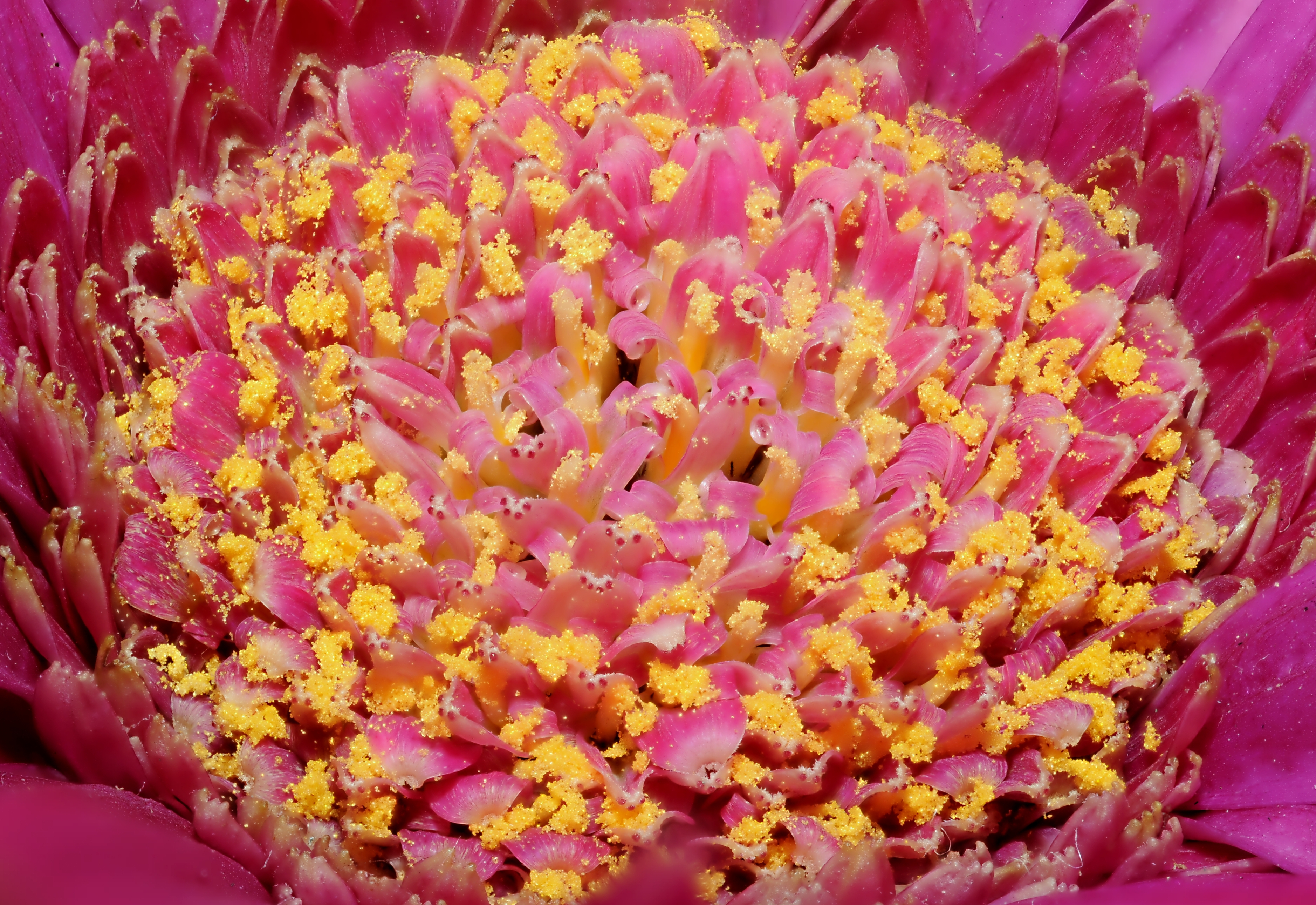 This photograph was taken with a Nikon D300 This image was created with CombineZP ( It was created out of 71 single images.). Fleur d'une plante de la famille des asteraceae (focus stacking). Image composée de 71 photos assemblées avec CombineZP.